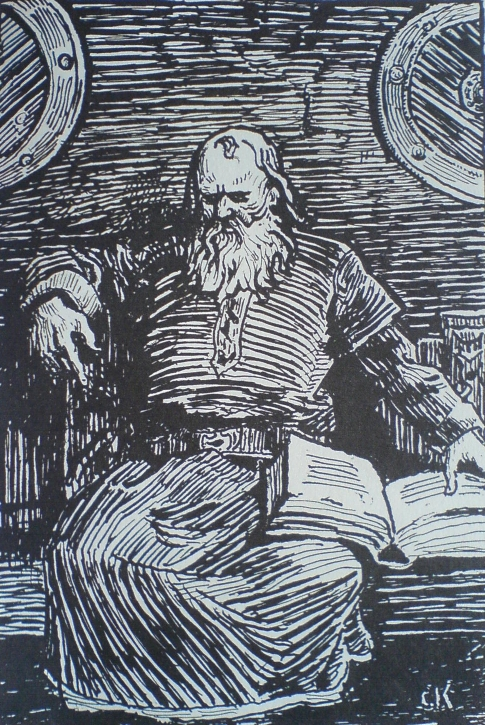 Portrait of Snorre Sturluson